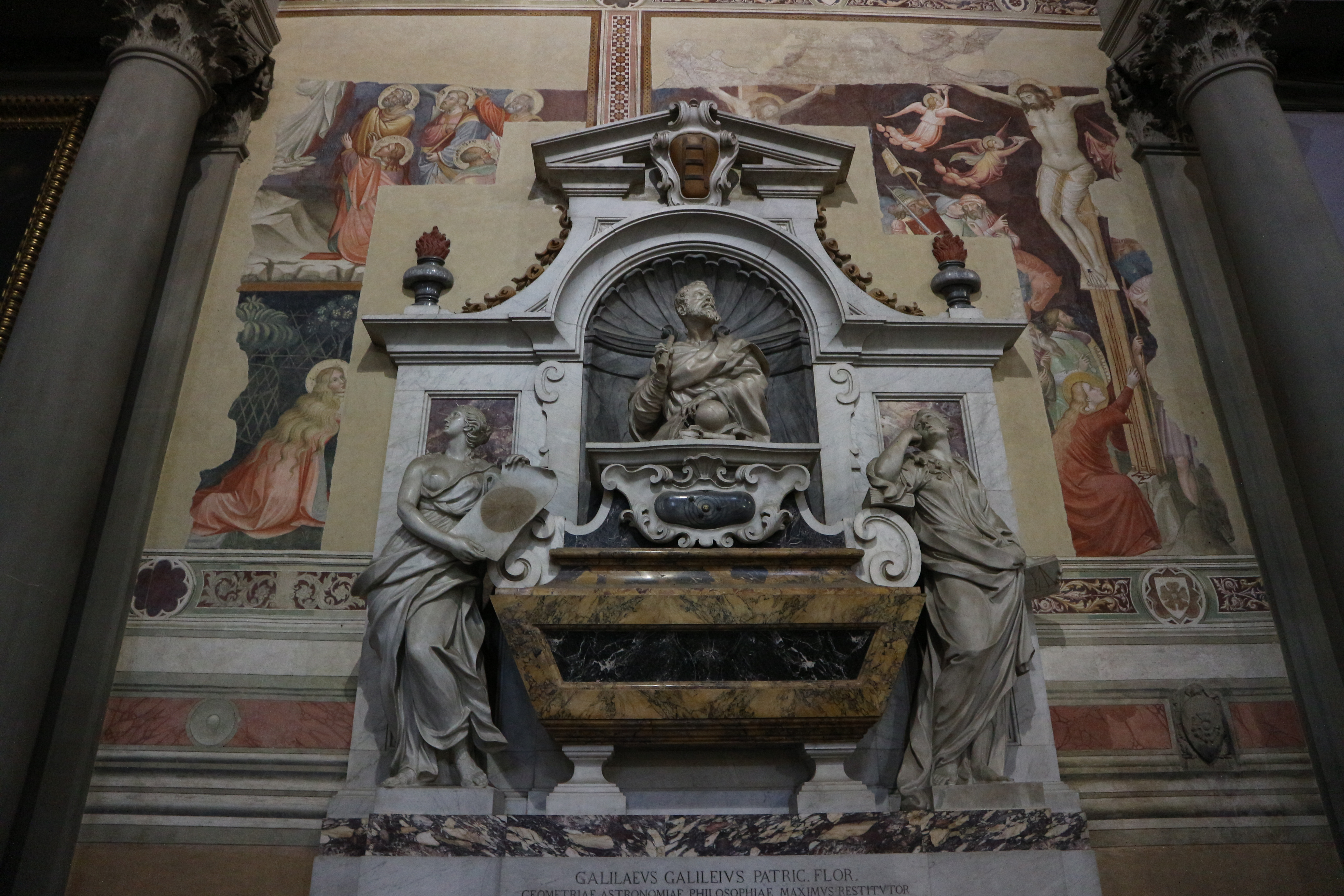 Tomba di Galileo